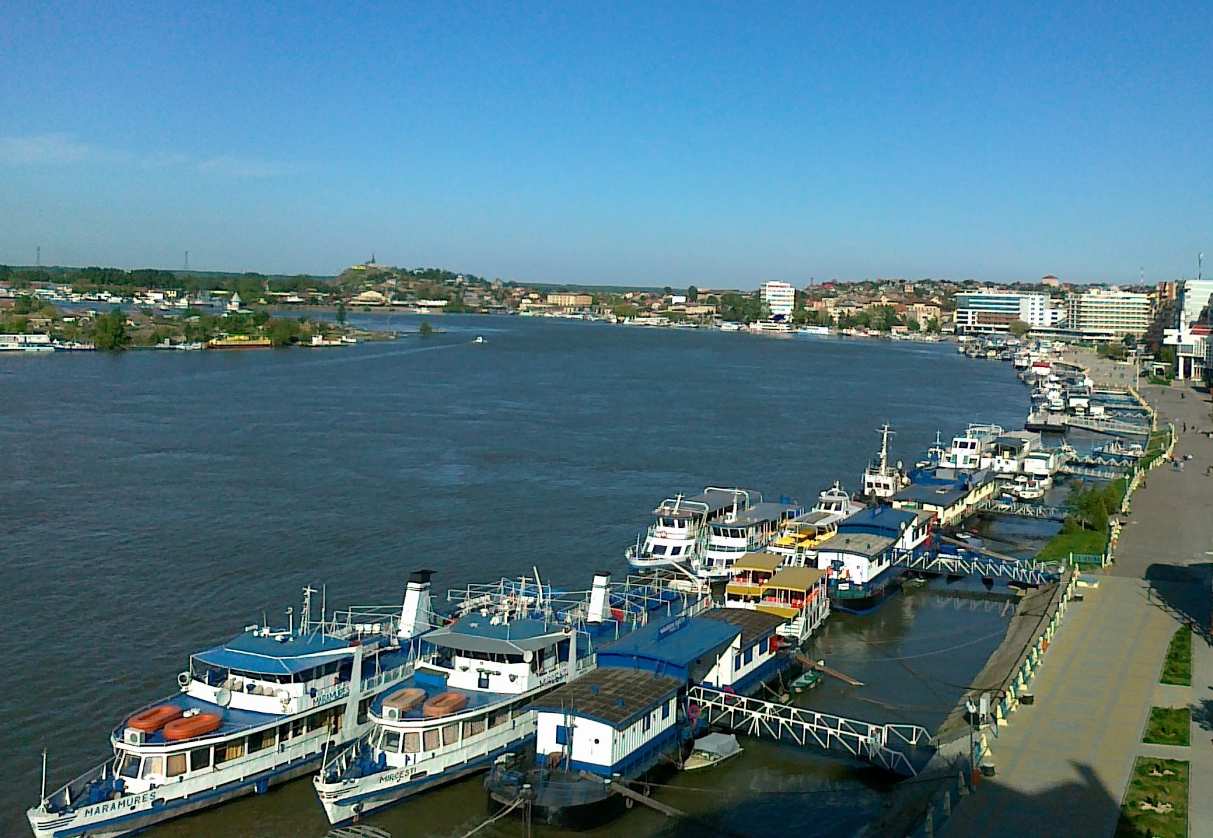 The harbour of Tulcea, Tulcea county, Romania. View from the hotel Esplanade.